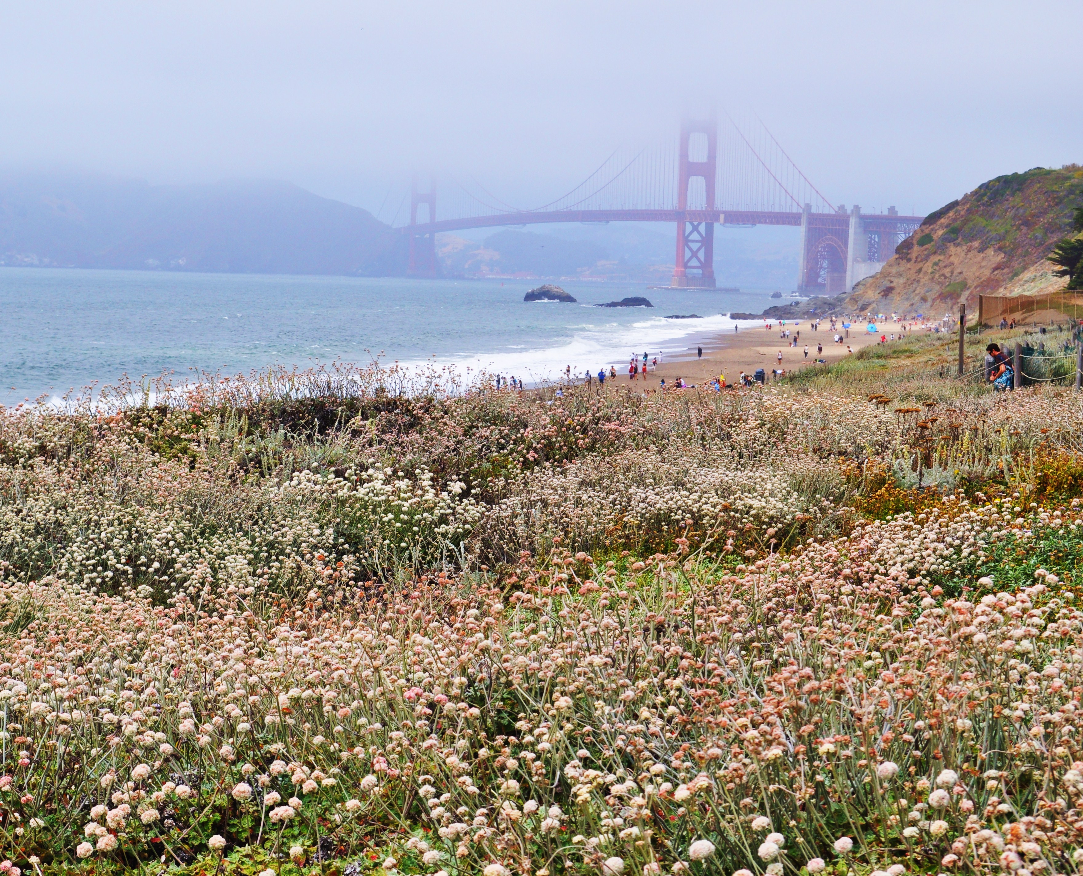 Wildflowers, Golden Gate Bridge, Baker Beach